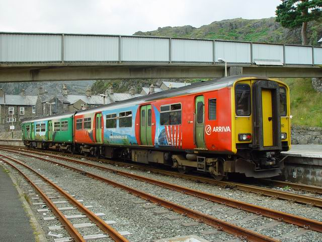 This is a British Rail Class 150. It is taken at Blanaeu Ffestiniog station - note the narrow gauge track in the foreground which is part of the Ffestiniog Railwy.